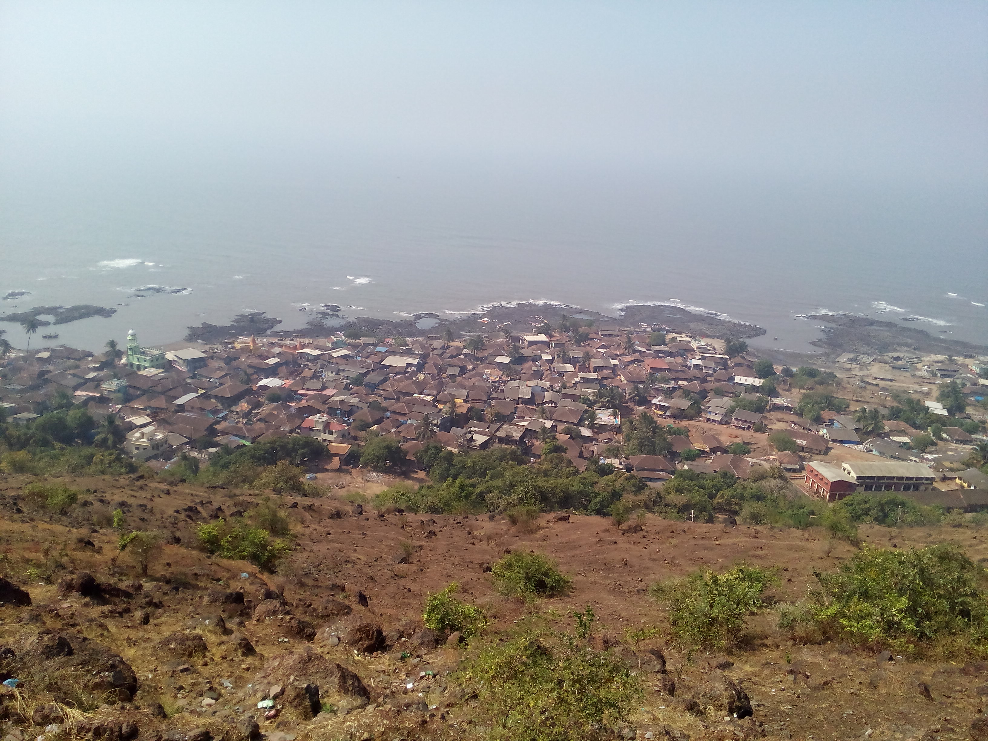 Kokan - Maharashtra - India